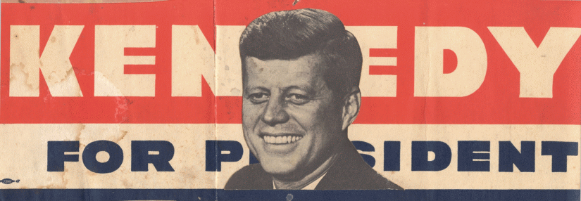 1960 Kennedy for President Campaign Bumper Sticker